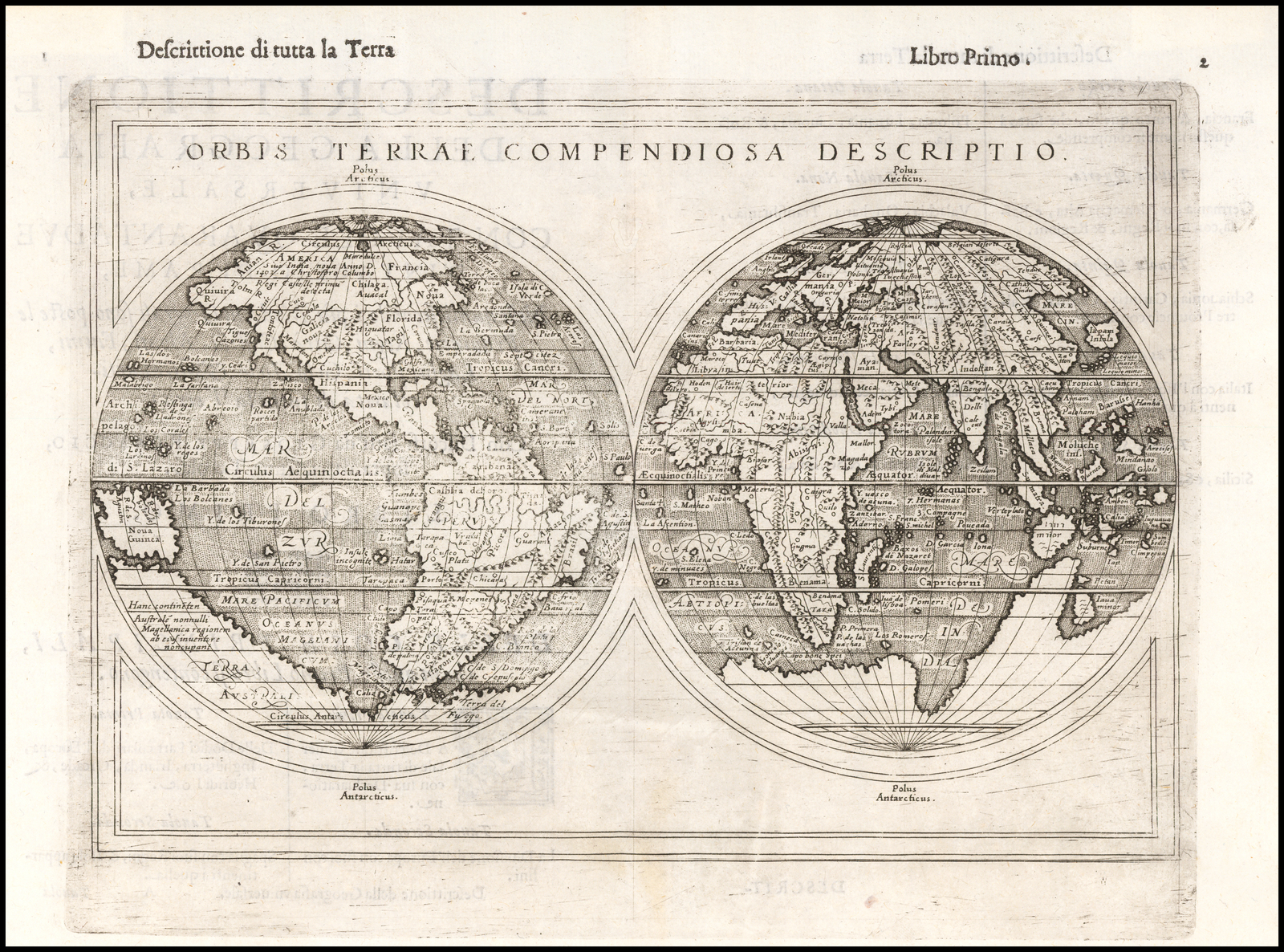 Giuseppe Rosaccio, Orbis Terrae Compendiosa Descriptio Publication, Venice, 1598